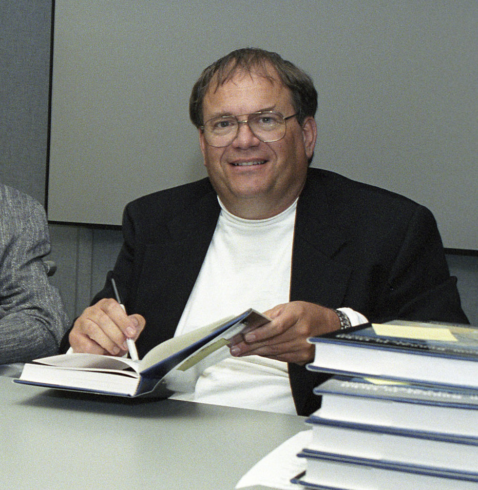 Editor Curtis Peebles signed hundreds of copies of Iliff's recently-published memoirs for NASA Dryden employees.